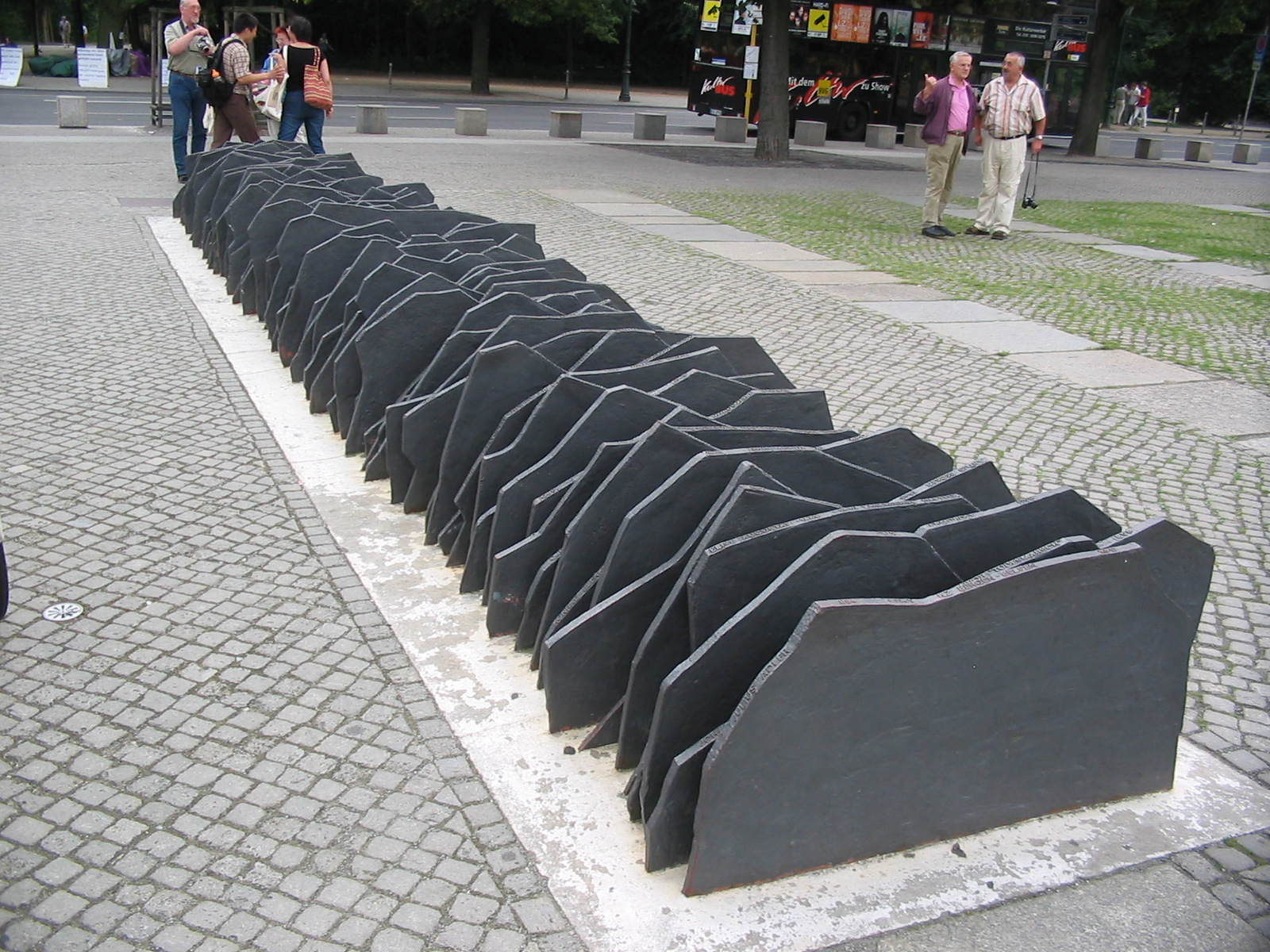 Memorial in front of the Reichstag, Berlin. Each slate plate corresponds to one of the 96 members left and centre eliminated by the Nazis after they grasped power in 1933.